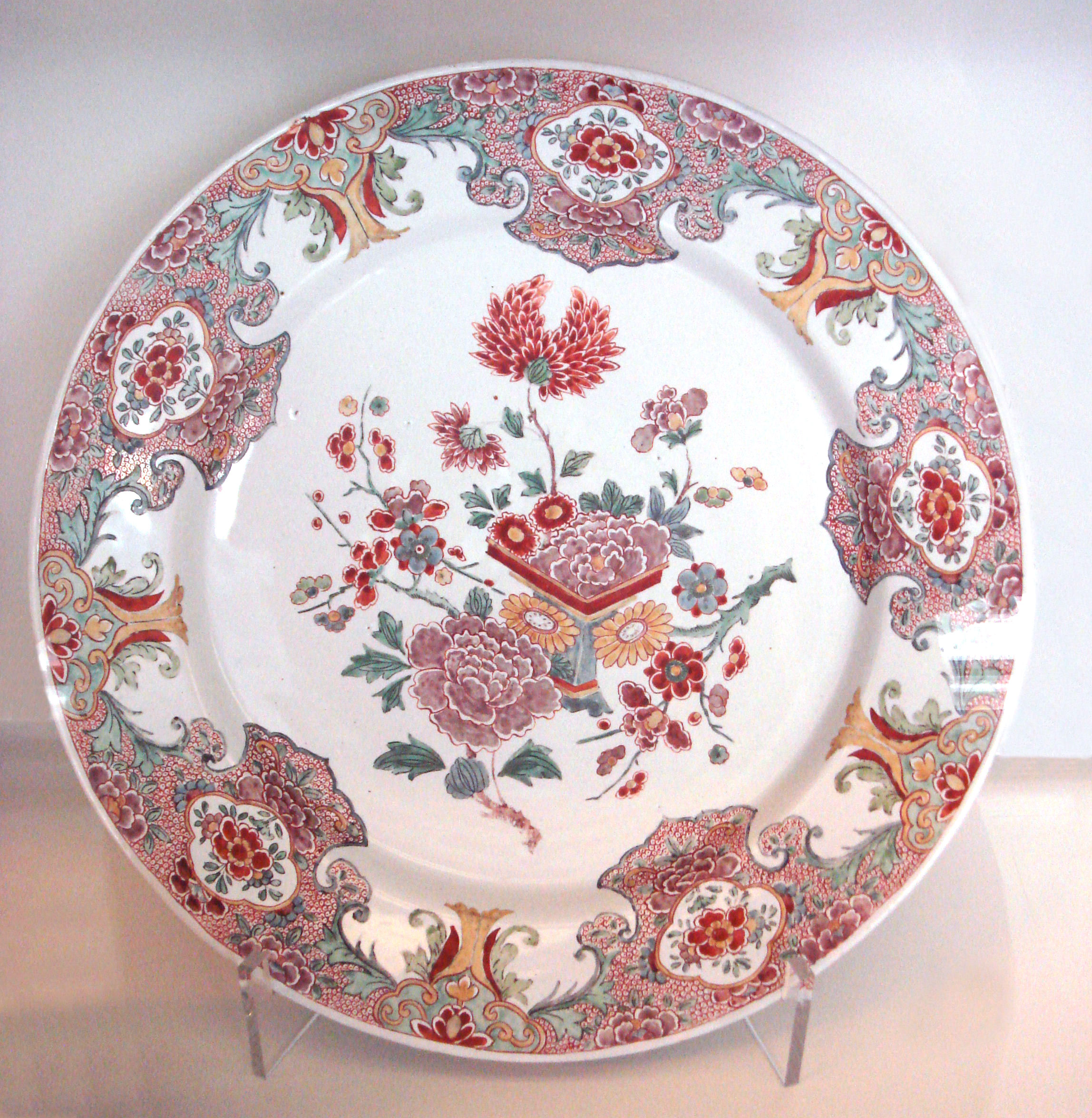 Delft_plate_faience_Famille_Rose_1760_1780